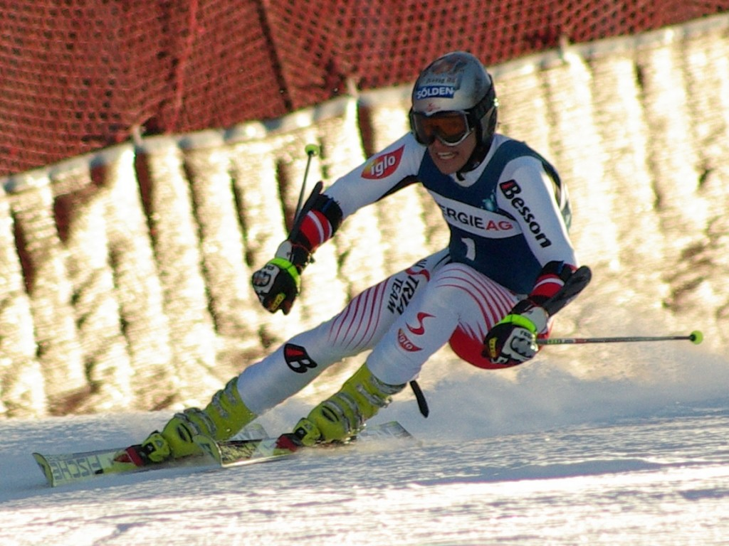 Austrian alpine skier Christoph Nösig during the European Cup Giant Slalom in Hinterstoder, Austria on January 11, 2008.